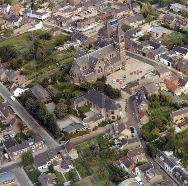 Aerial view of Heer-Maastricht, Netherlands, in 1982. Photo collection of RHCL Maastricht, GAM 39875.